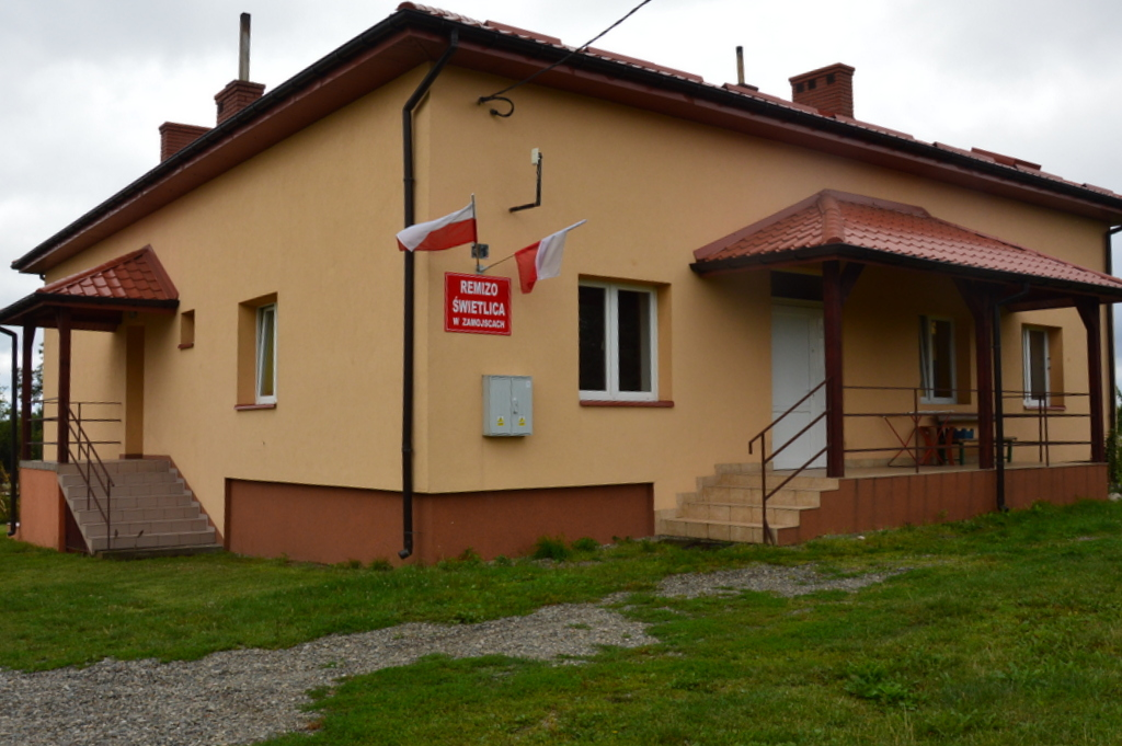 Zamojsce